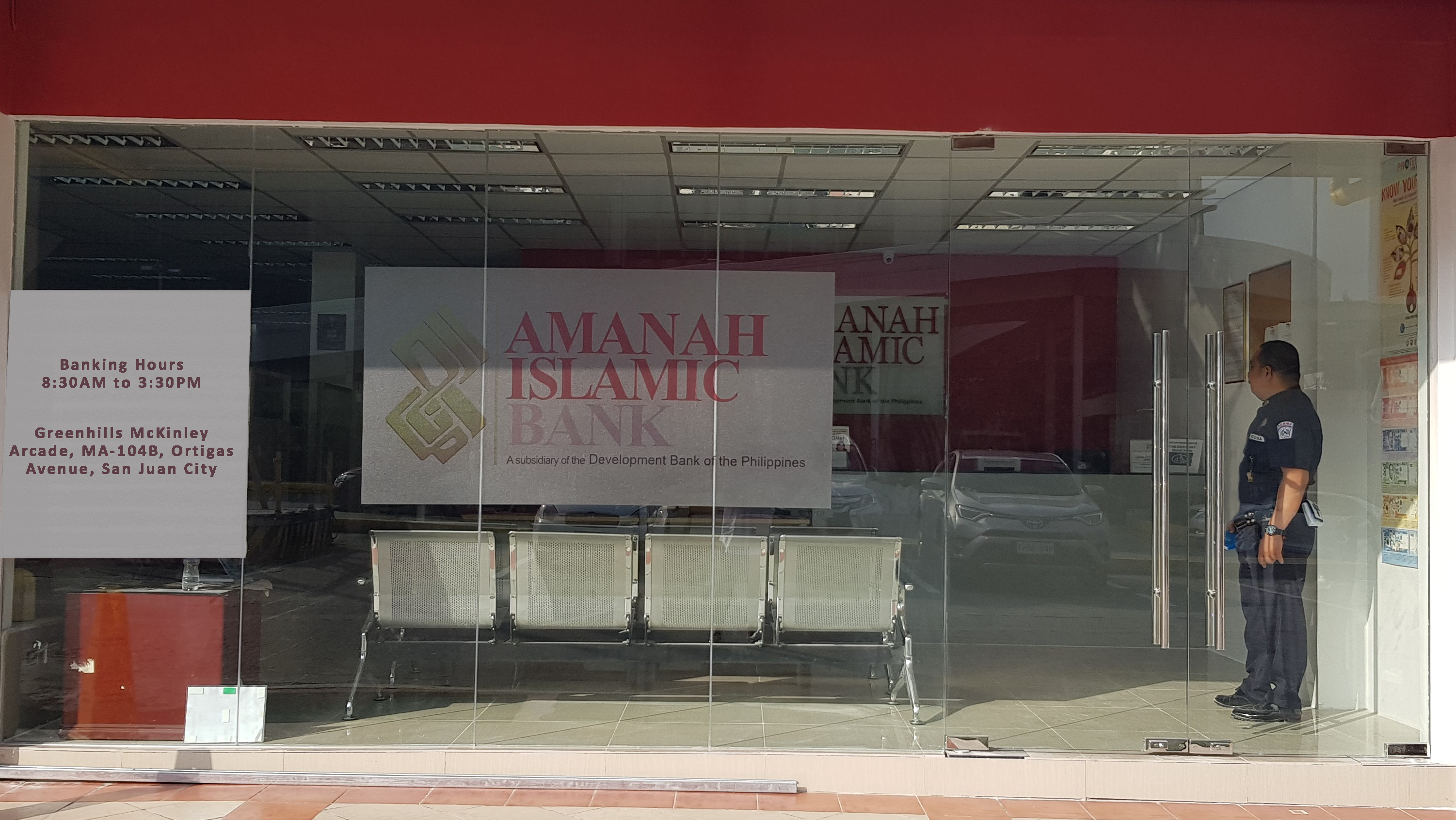 Entrance of Al-Amanah Islamic Bank branch in Greenhills, San Juan, Metro Manila